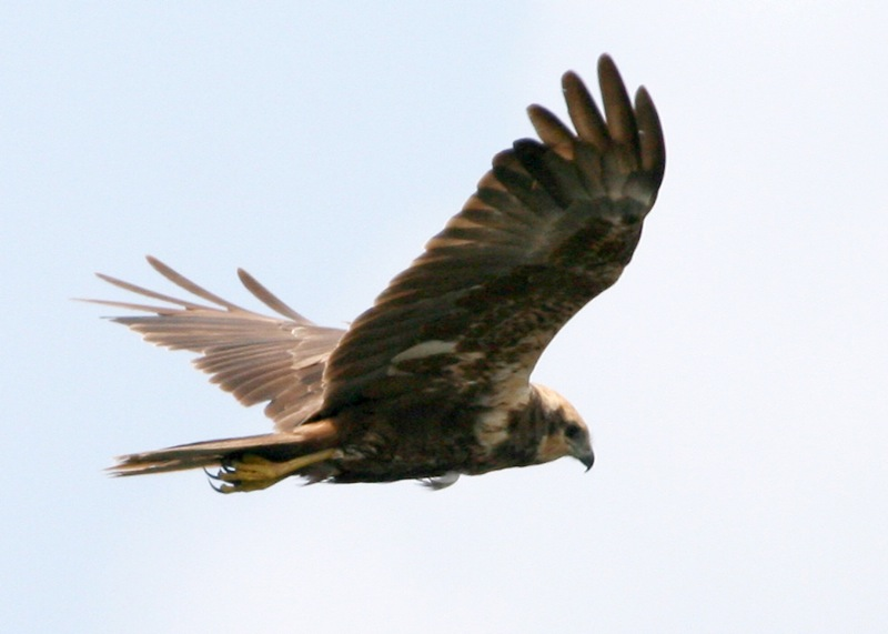 Female Western Marsh Harrier (Circus aeruginosus aeruginosus) Location: Uran mudflats, Mumbai, India; Date: 25 September 2005